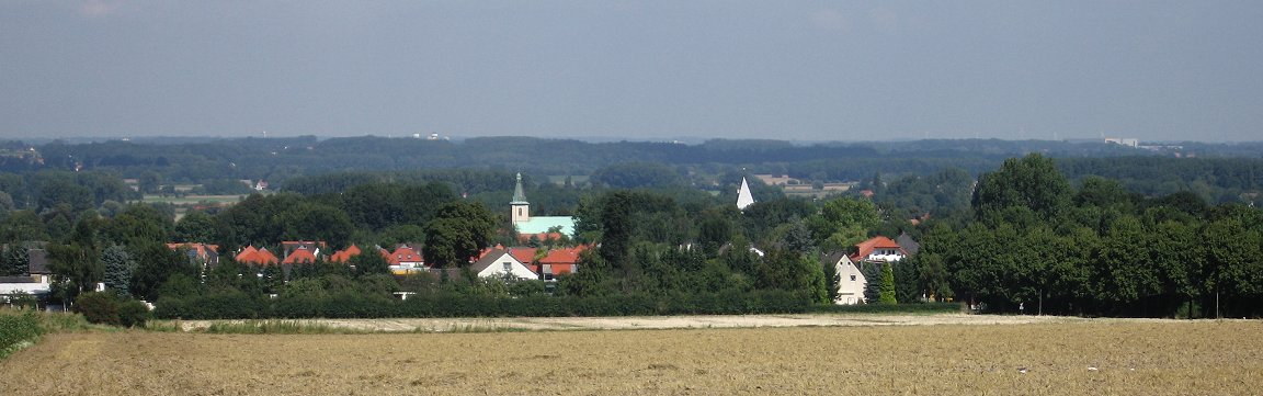 Unna-Hemmerde, North Rhine-Westphalia, Germany, seen from the south